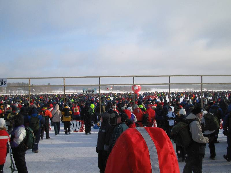 Participants of Miljoonapilkki ice fishing competition in Töysä, Finland in 2005.